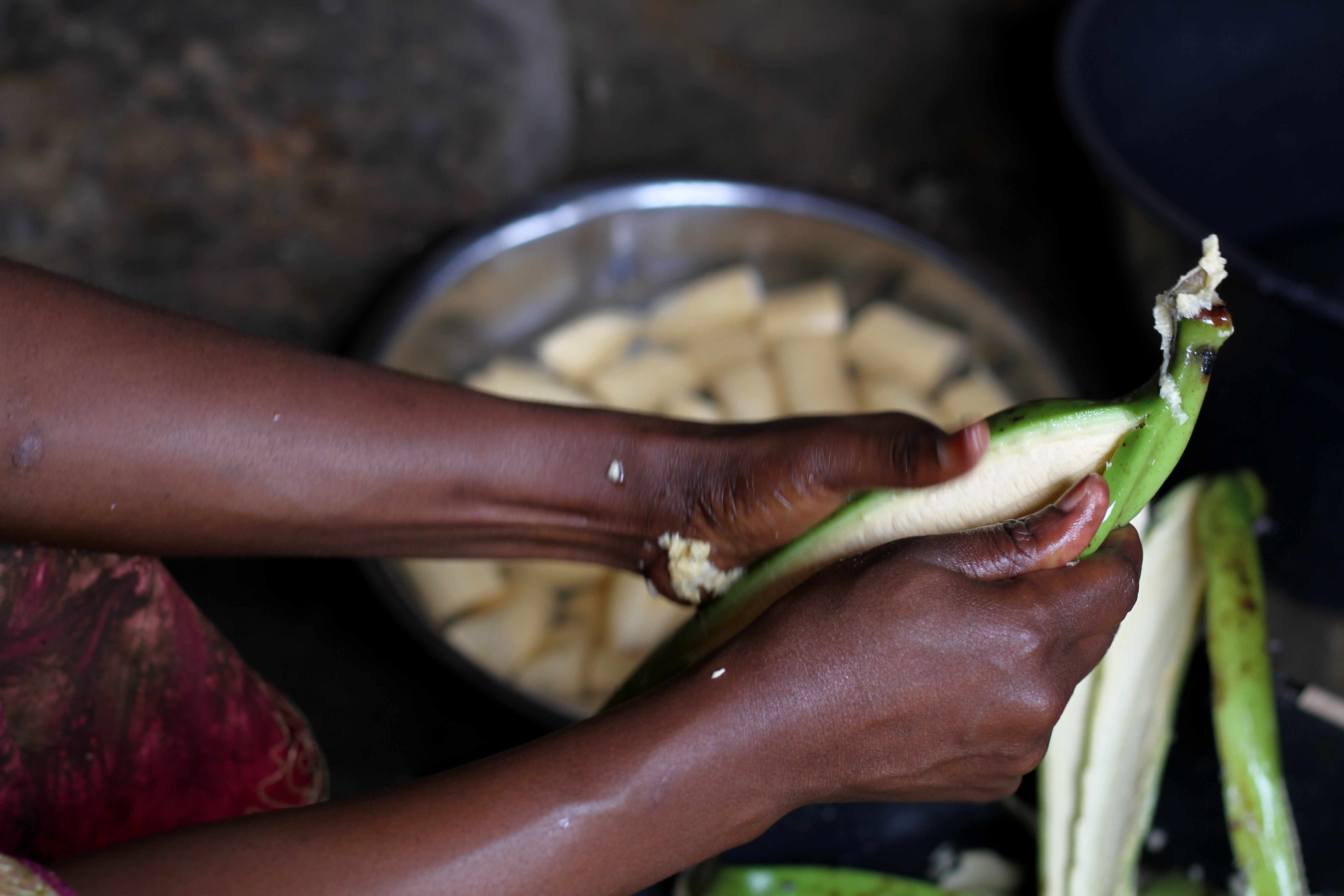 Life in Tayap (Cameroon)